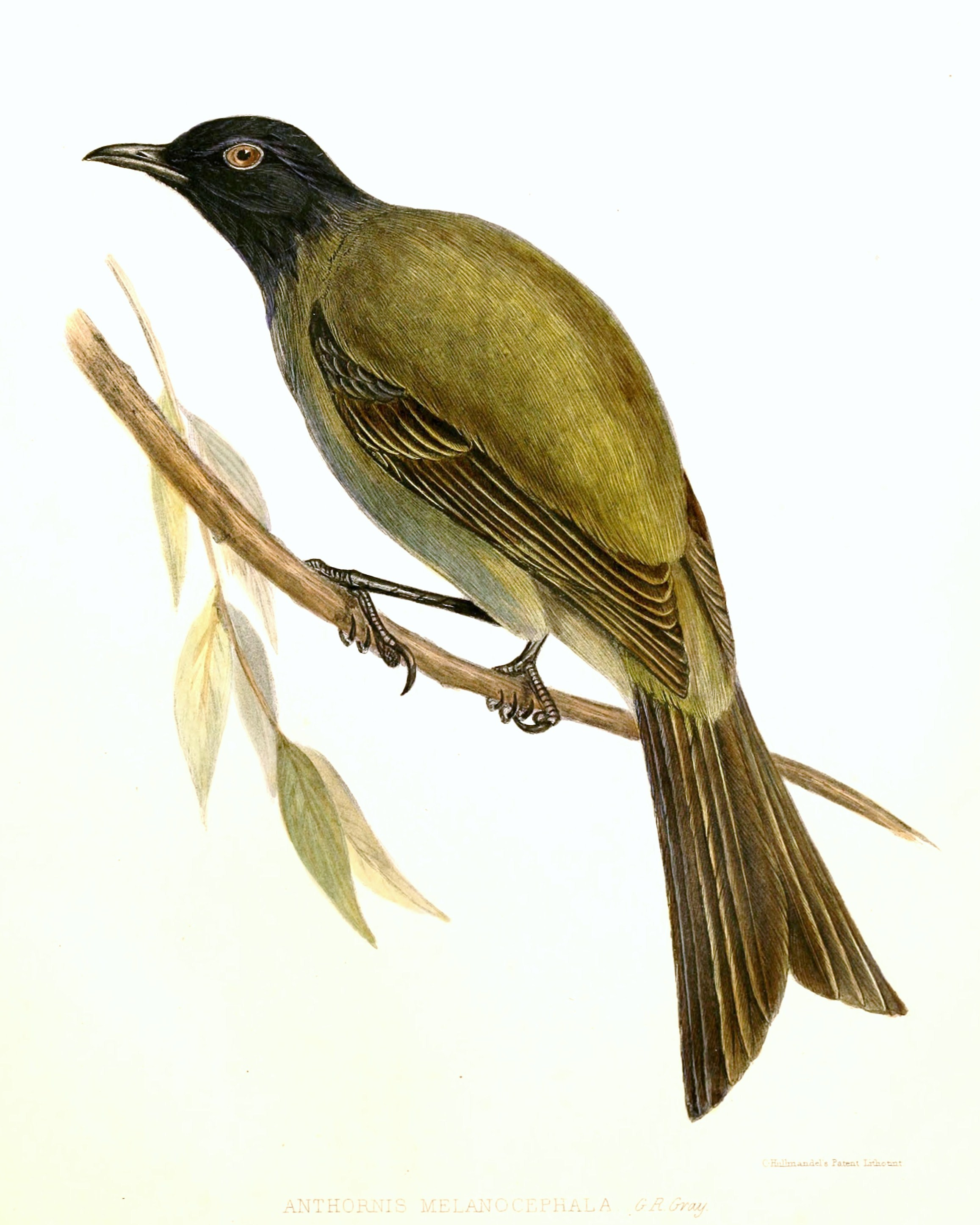 « Anthornis melanocephala » = Anthornis melanocephala (Chatham Island Bellbird)